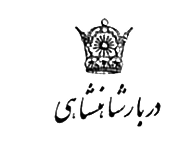 The emblem of Iran's Ministry of Royal Court